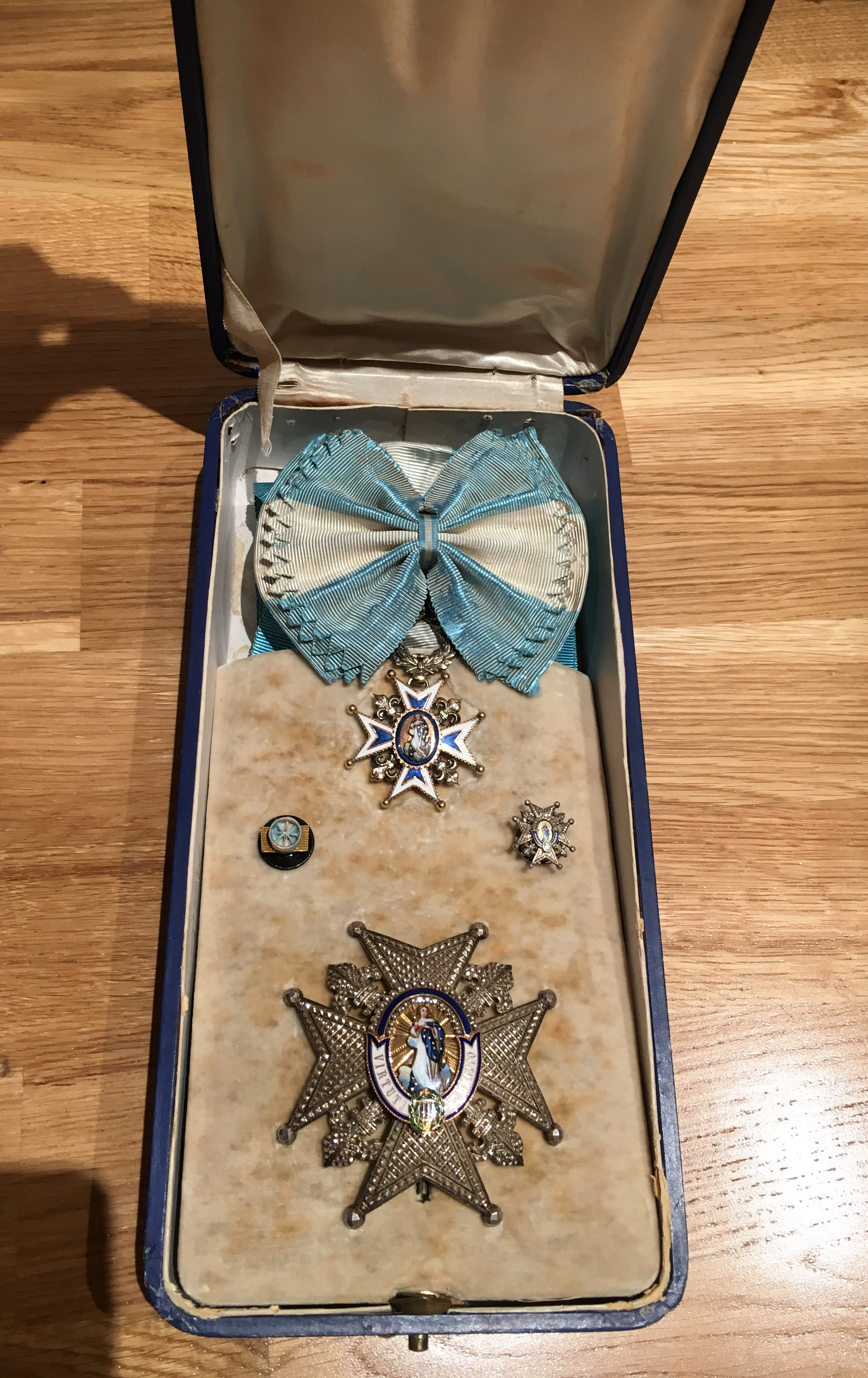 Grand Cross insignia of the Order of Charles III, Kingdom of Spain. AEA Collection